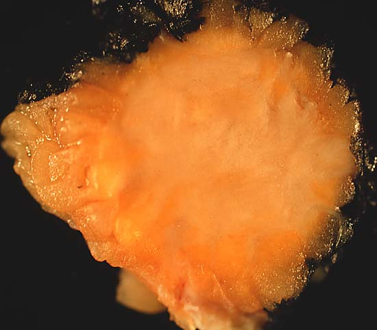 Granular Cell Tumor This 2-cm tumor presented as an abdominal wall mass thought to be an incisional hernia in a middle-aged woman. Hard, gritty, and with an infiltrating margin, this typical gross appearance of a granular cell tumor raises concern that one is dealing with a malignant neoplasm. Fortunately, the microscopic picture is characteristically benign, featuring cytologically bland cells with coarse, eosinophilic, granular cytoplasm. Granular cell tumors of the breast represent one of the few lesions that can impersonate an invasive breast cancer on gross examination. This photograph was taken with a Minolta X-700 SLR and Sigma 50mm f/2.8 macro lens on Kodak Elite film, ISO 100, at f/5.6 for 1/8 sec. Photograph by Ed Uthman, MD. Public domain. Posted 19 Jul 99